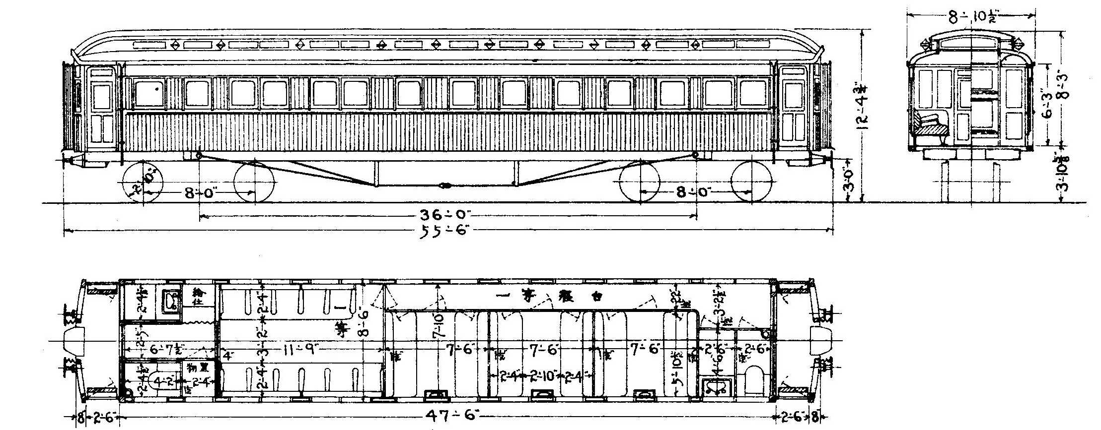 Type drawing of JGR's Inei5035 type passenger car